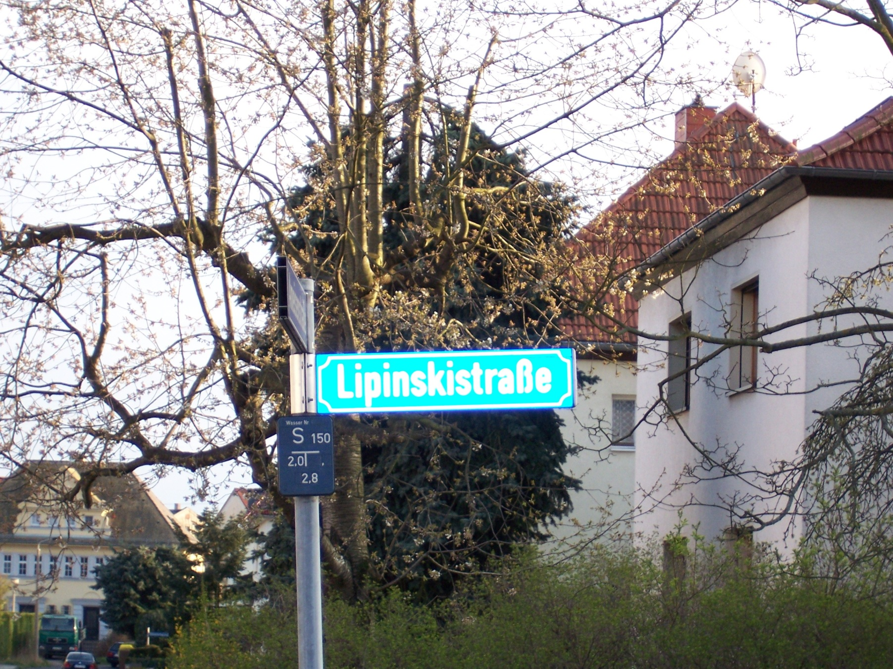 Street name Richard Lipinski in Leipzig